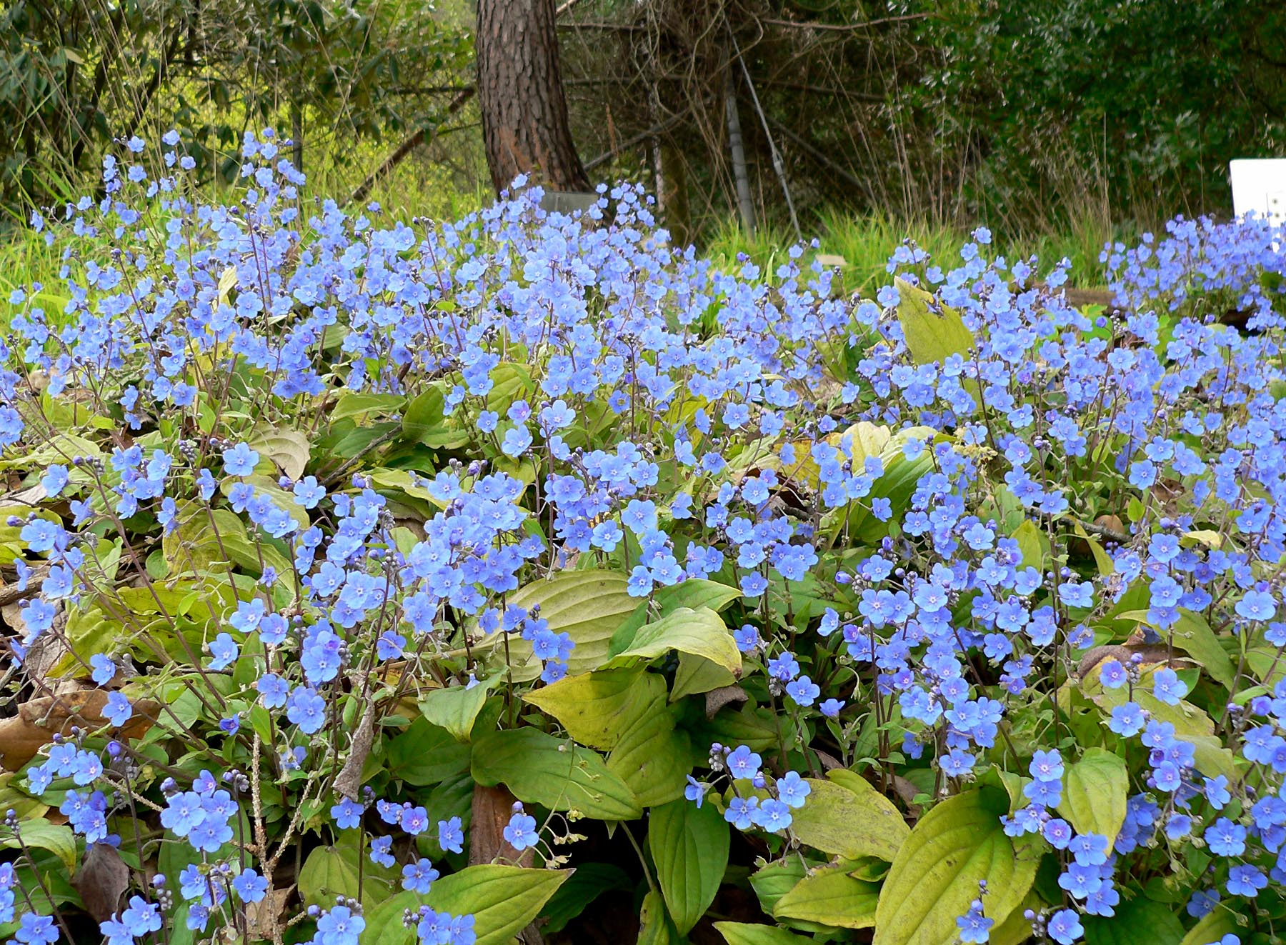 Photo of Omphalodes cappadocica at the University of California Botanical Garden